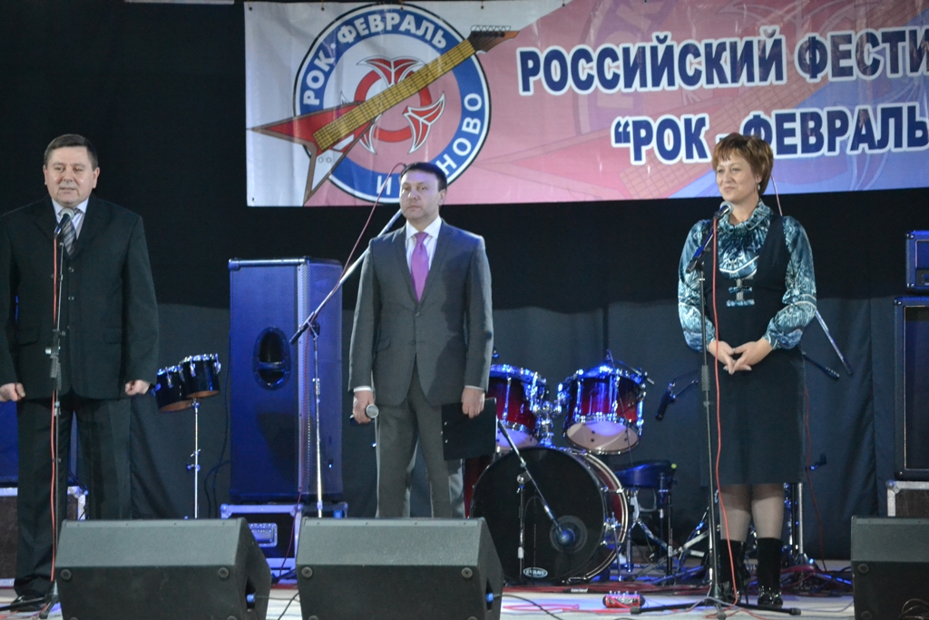 Поздравление участников фестиваля «Рок-Февраль — 2014»